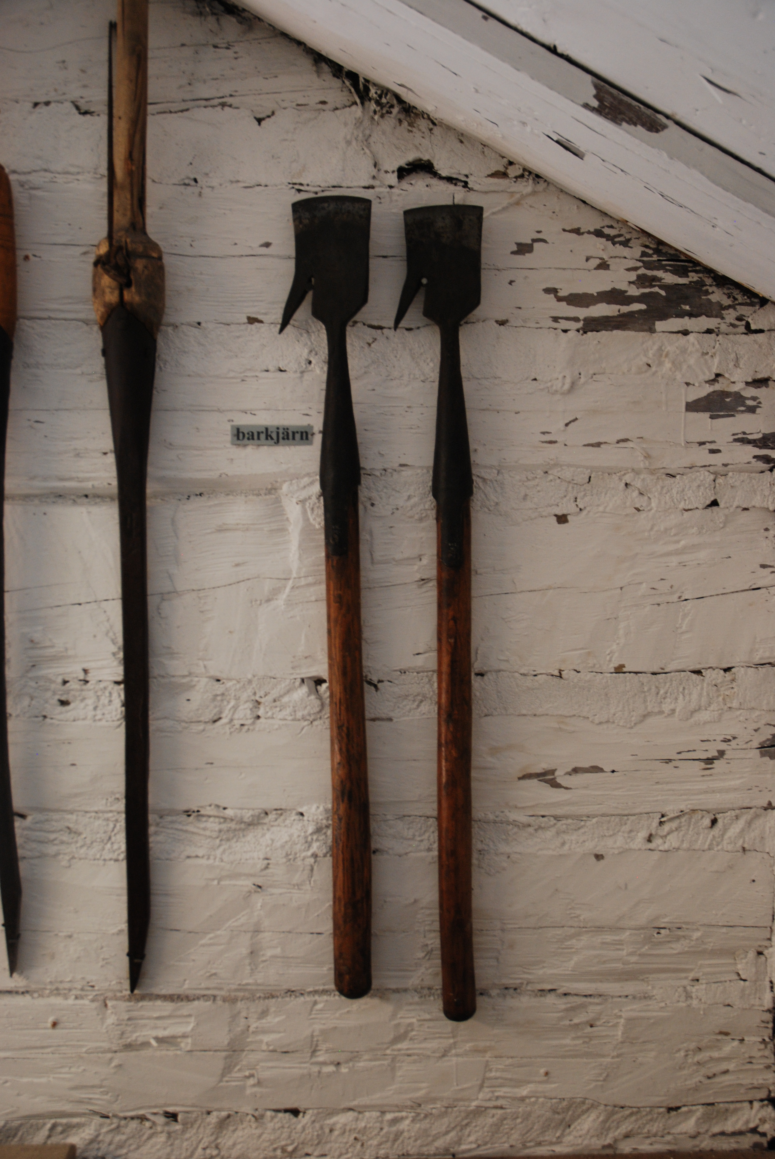 Tools to remove bark from trunks, manufactured by Wira Bruk in Sweden. Called a spud, bark spud, or barking iron.